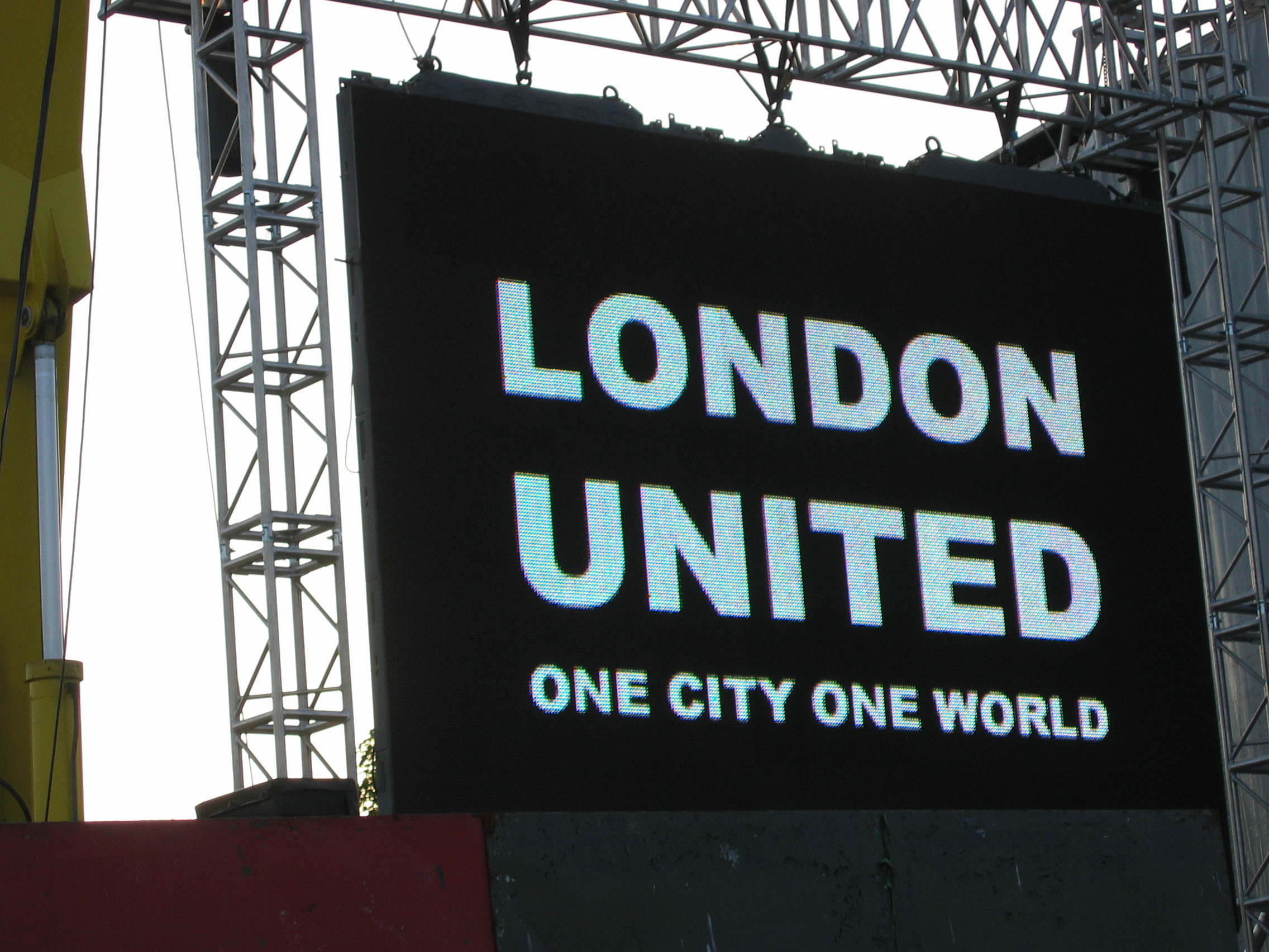 London United festival logo on screen. Taken July 05 by C Ford.